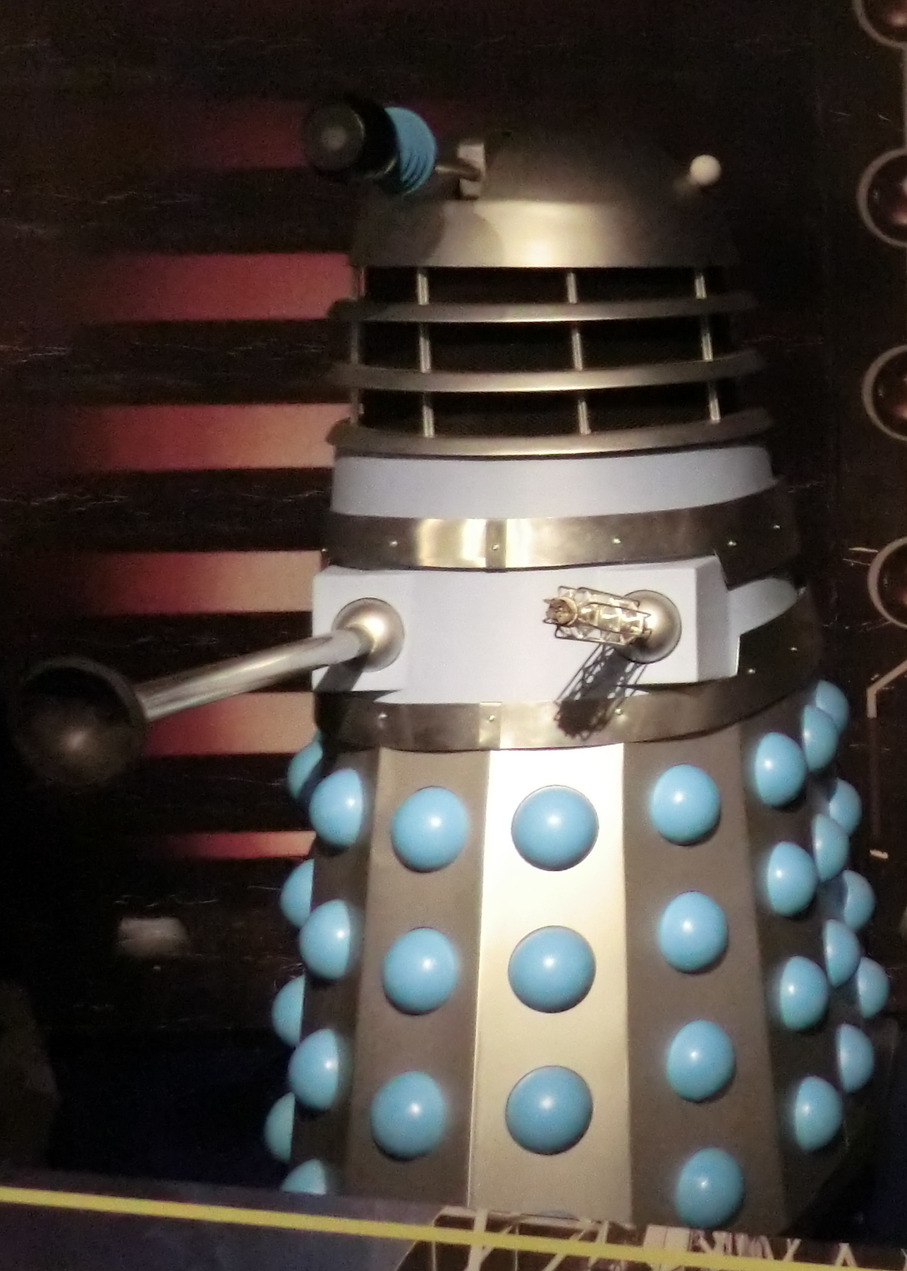 CIMG0931.JPG Doctor Who exhibitions